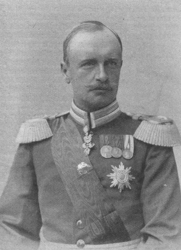 Frederick Augustus III of Saxony (1865-1932) in 1902.